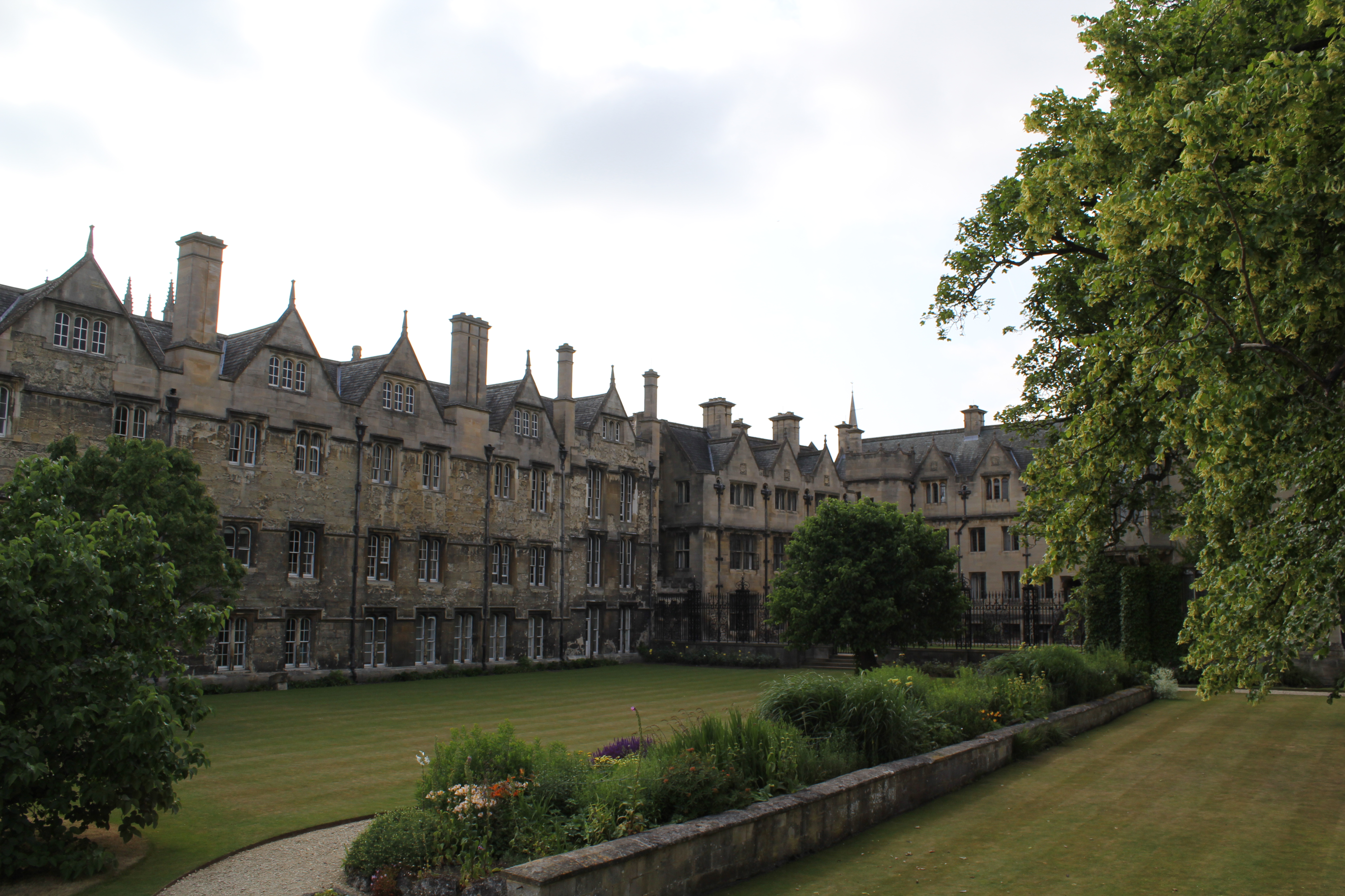 Merton College in July 2013